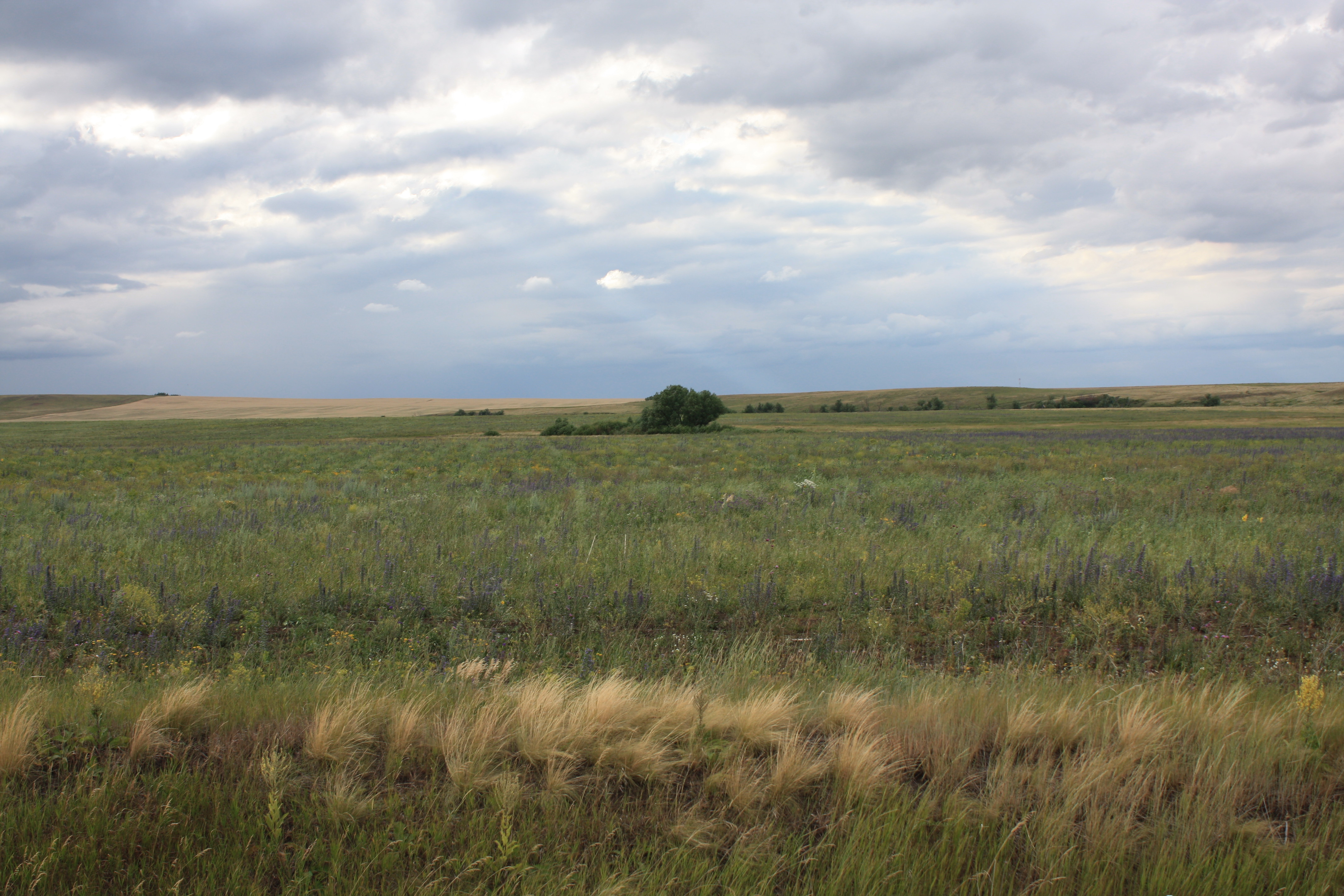 Steppe landscape in Sharlyksky District, Orenburg Oblast Степной пейзаж